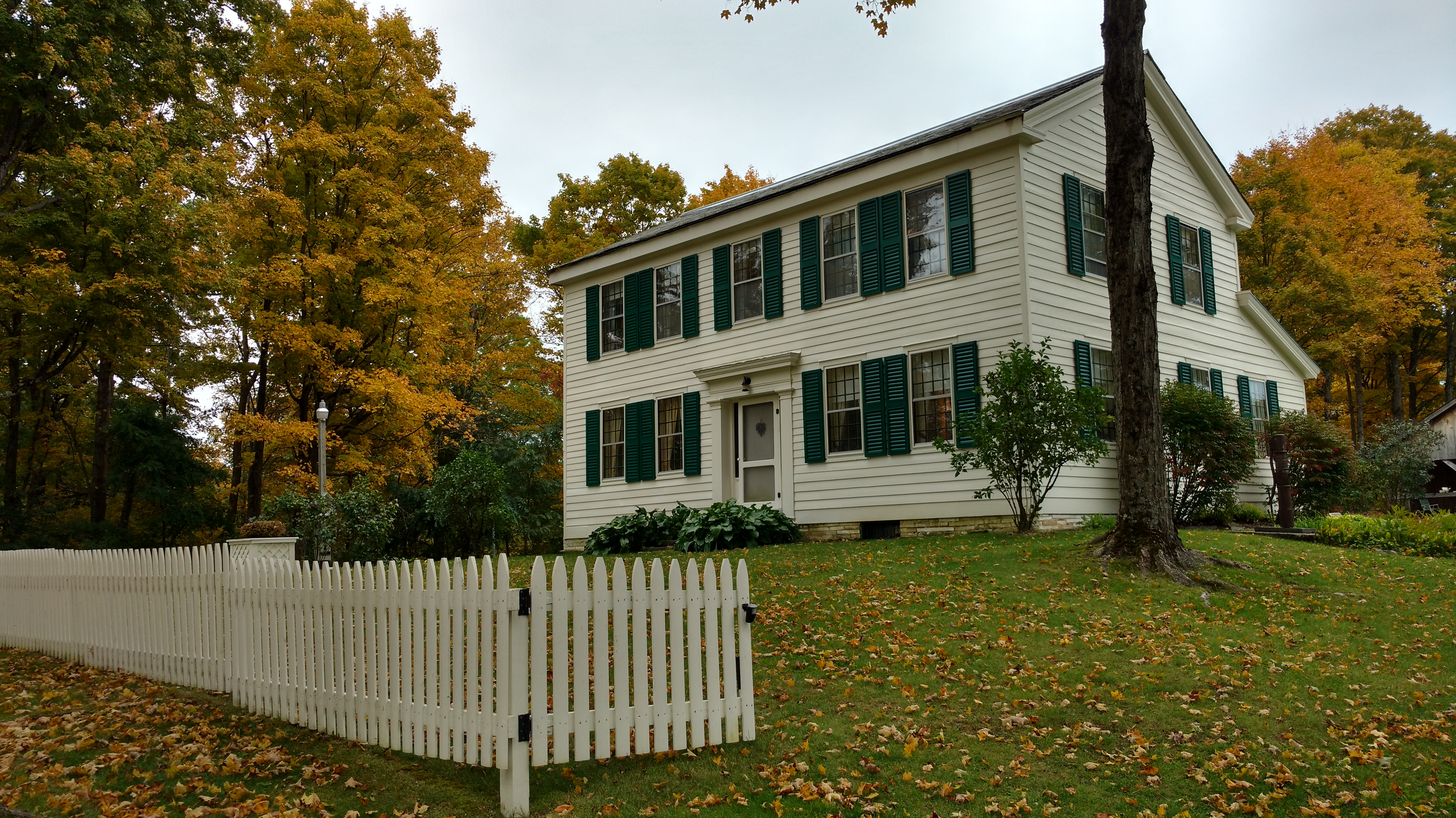 Restored farm house of William Miller with original coloring